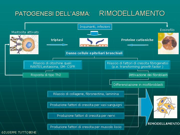 Outline the pathogenesis of airway remodeling in the course of bronchial asthma. Provenienza: Relazione dello stesso autore su "Progetto G.IN.A." aprile 2004